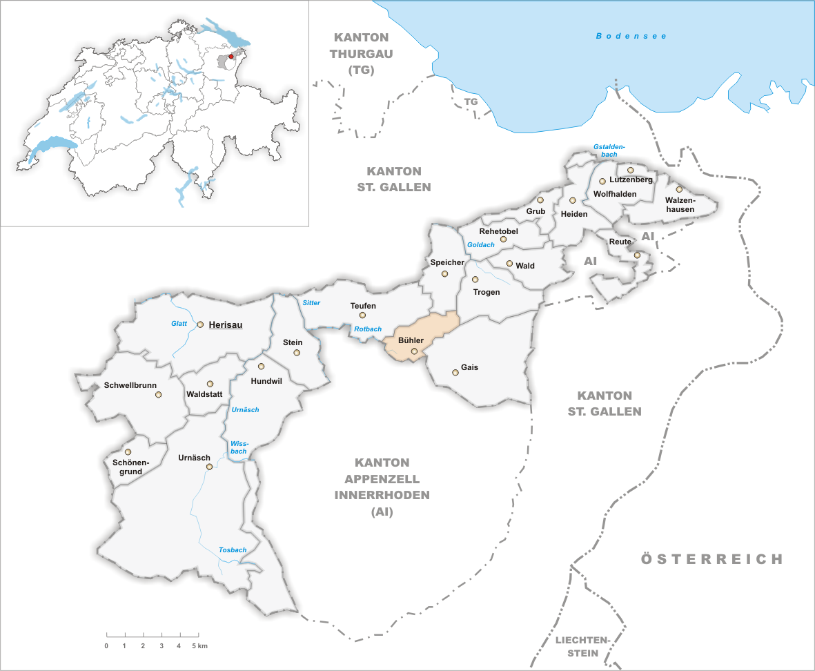 Municipality of Bühler